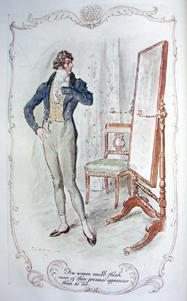 Persuasion (last Jane Austen Novel) ch 1 : Sir Elliot before a cheval-glass. Few women could think more of their personal appearance than he did.